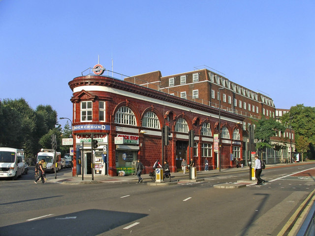 Chalk Farm Station, London NW3